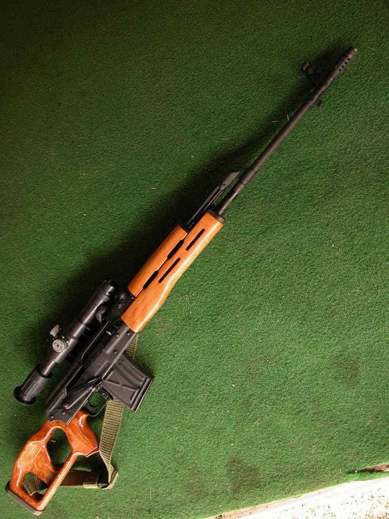 DCB Shooting Romanian PSL rifle